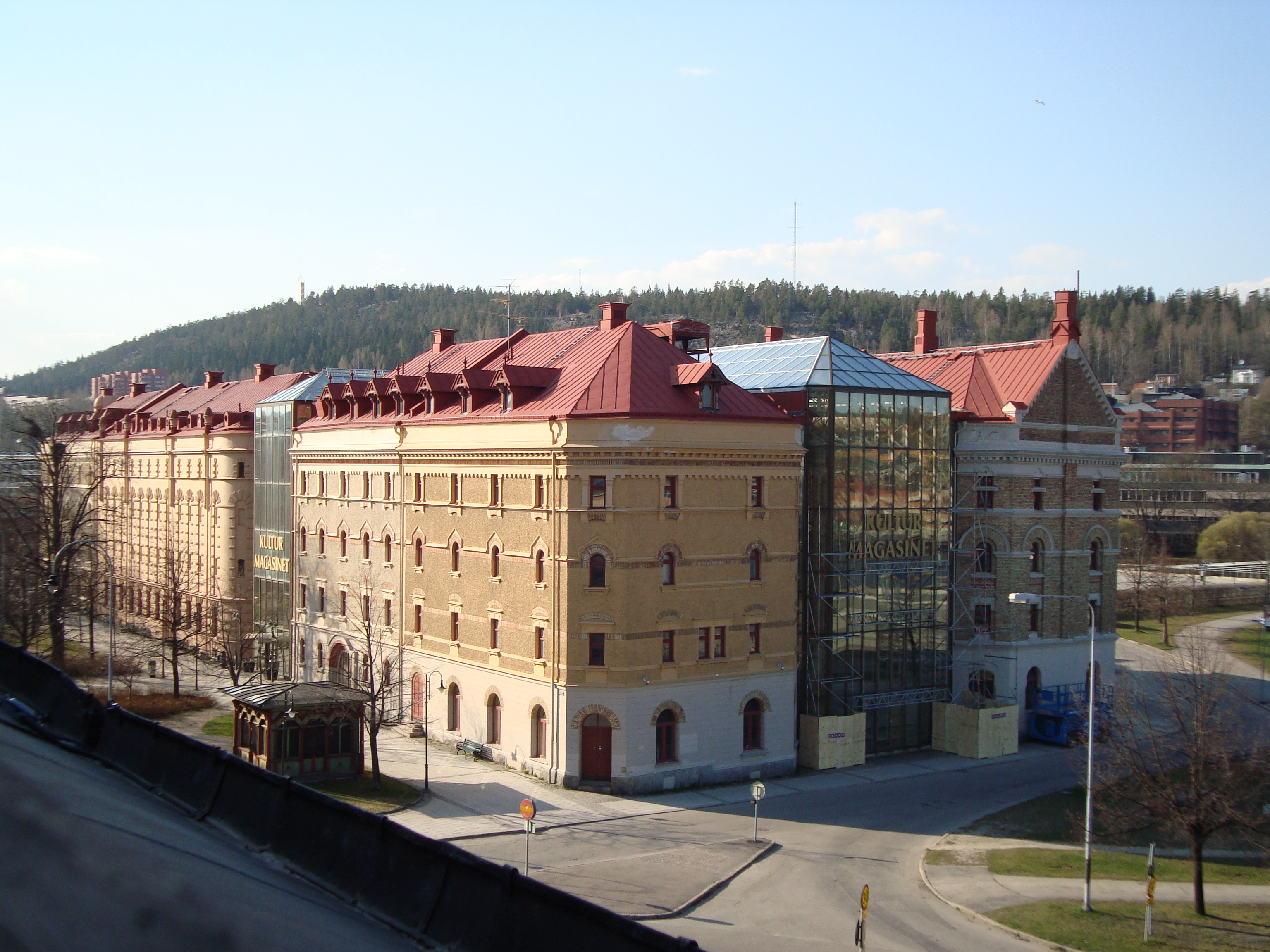 Kulturmagasinet, public library and city museum, Sundsvall, Sweden